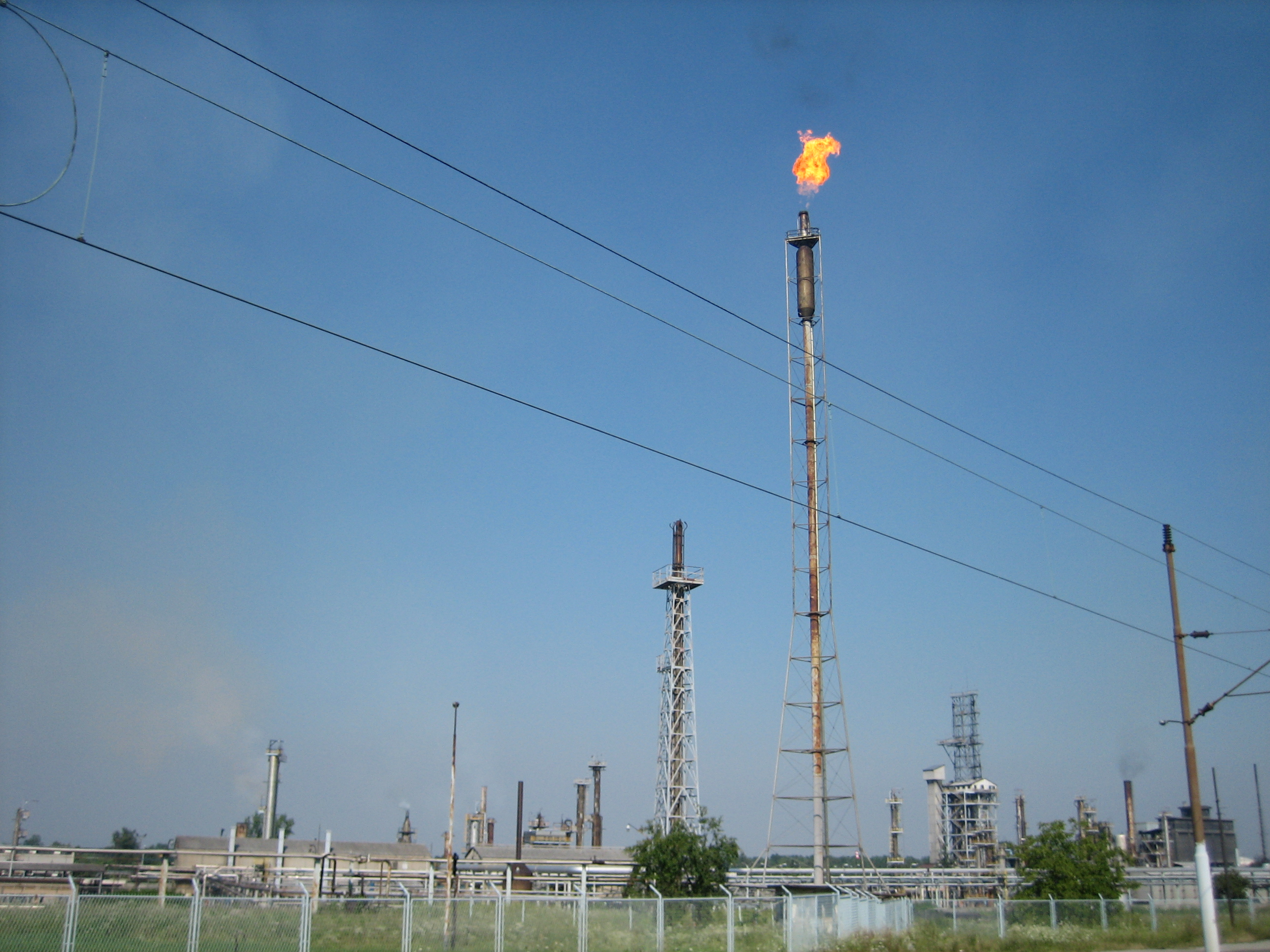 Oil refinery in Sisak, Croatia / INA Rafinerija nafte, Sisak.